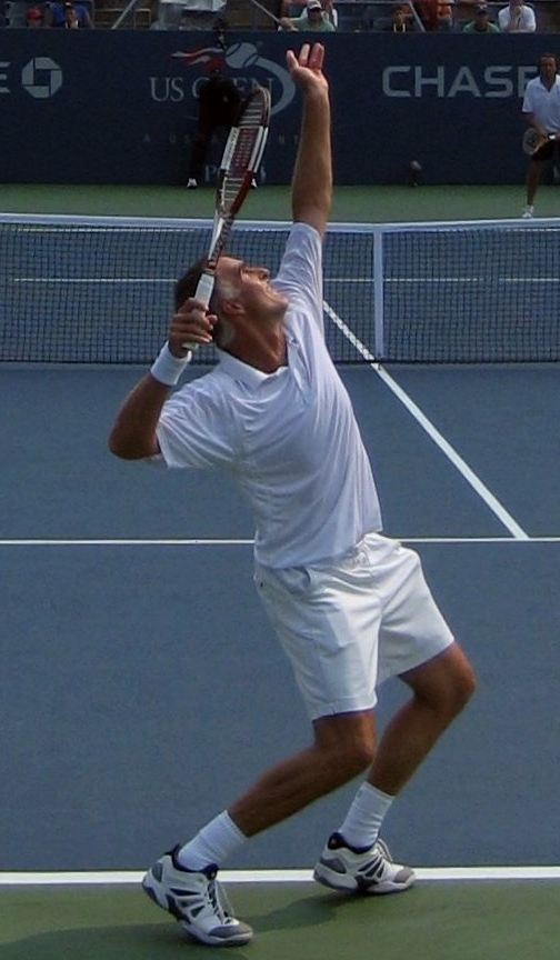 Photo of tennis player Todd Martin at the U.S. Open's Men's Champions Invitational.